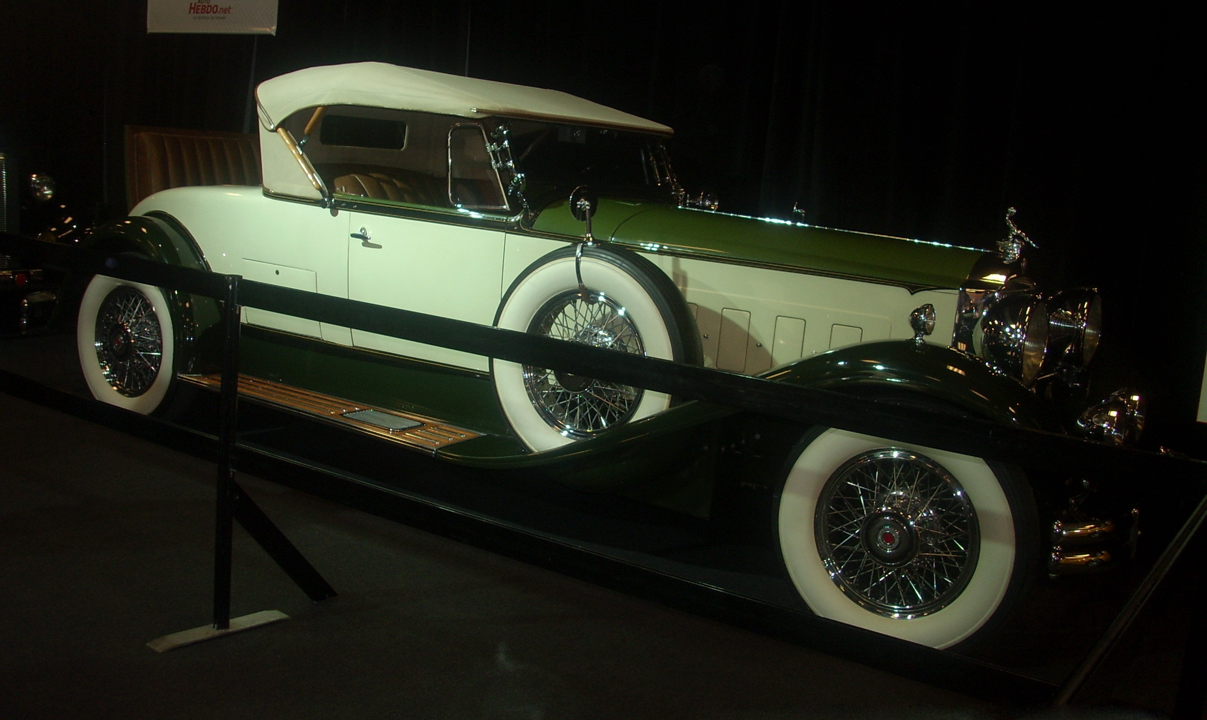 1930 Packard Deluxe Eight photographed in Montreal, Quebec, Canada at the 2010 Montreal International Auto Show.